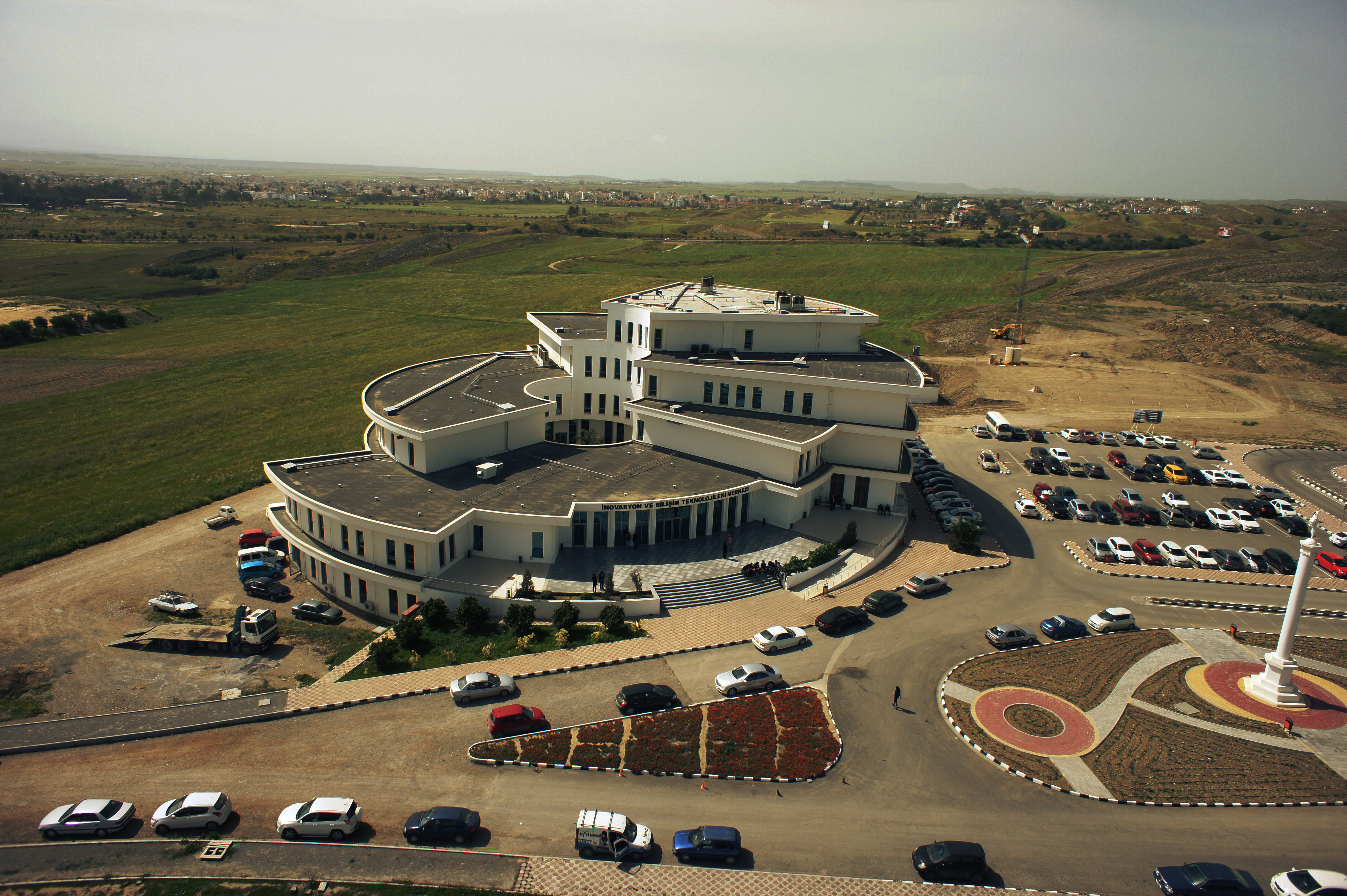 Yakın Doğu Üniversitesi Mühendislik Fakültesi.